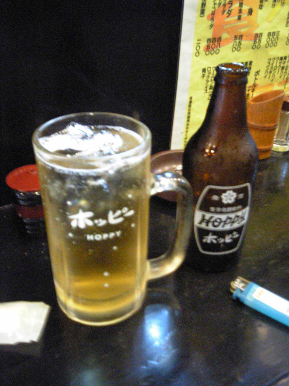 Hoppy and its bottle